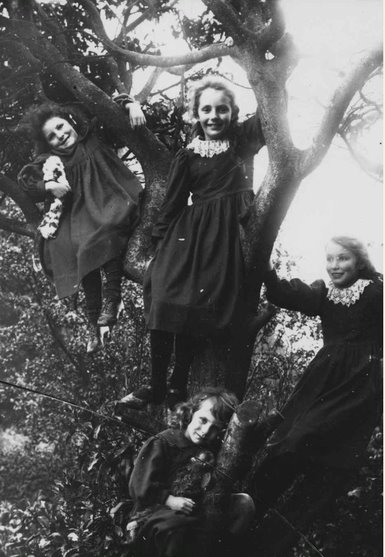 The Oliviers in the Chart Woods